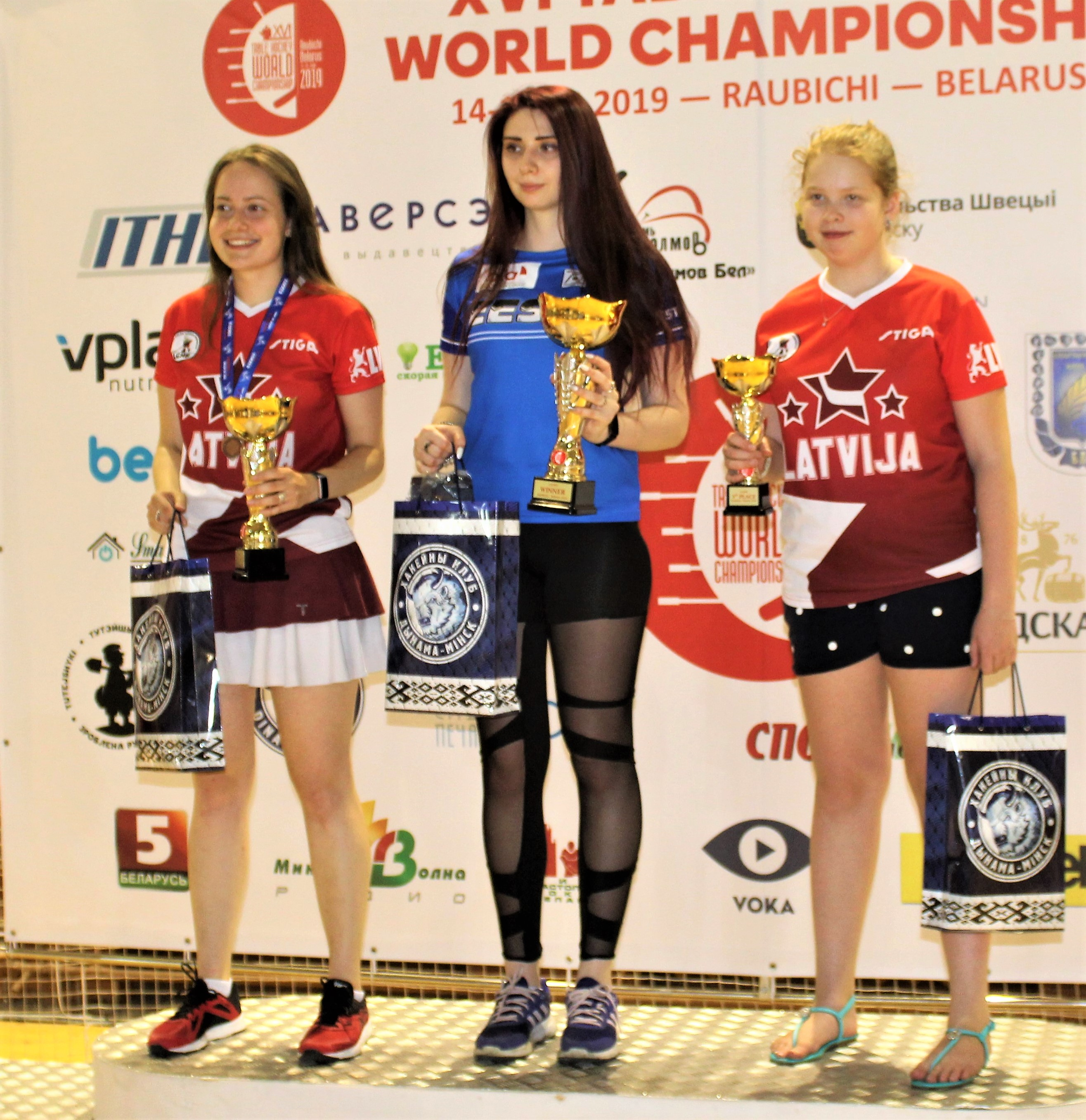 Winners of Women World Table Hockey Championship - 2019 in individuals. 1. Maria Saveljeva (Estonia, in centre), 2. Laima Kamzola (Latvia, left), 3. Krista Aniija Lagzdiņa (Latvia, right).